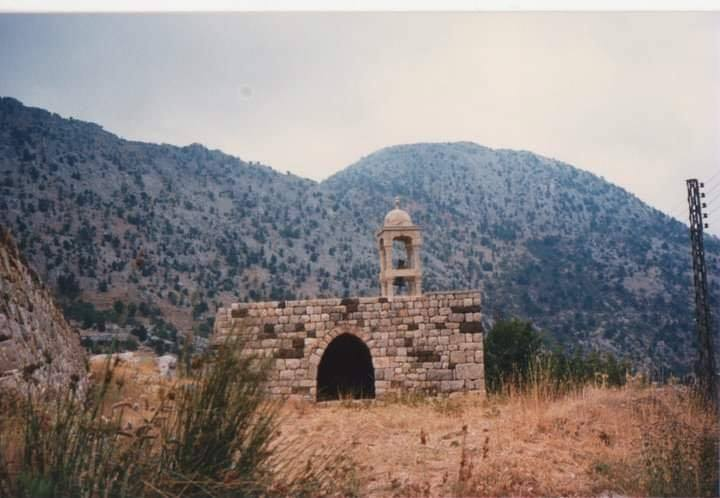 One of the ancient churches of Tannourine, in 1966